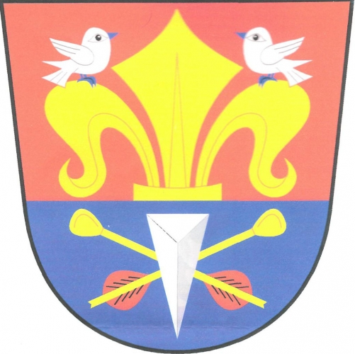 Coat of arms of Čižice, Plzeň-South District